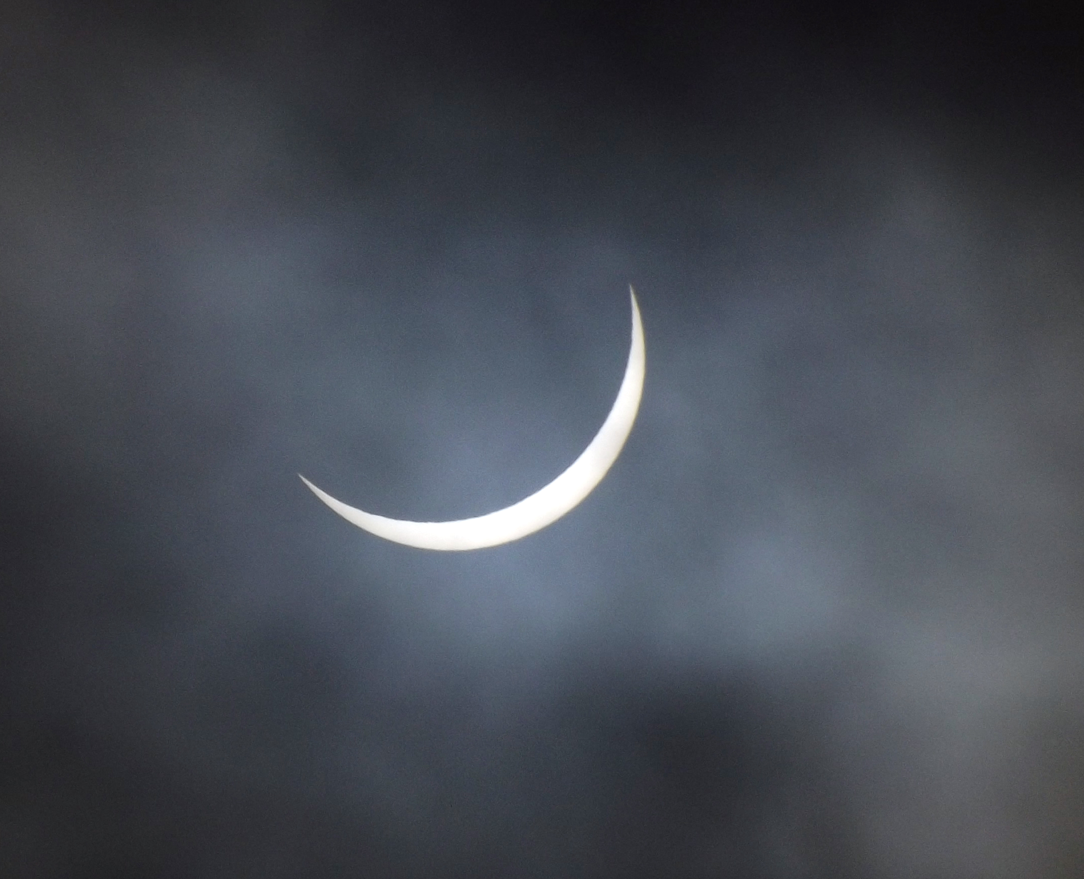 March 20th Solar Eclipse as seen from Dublin, Ireland